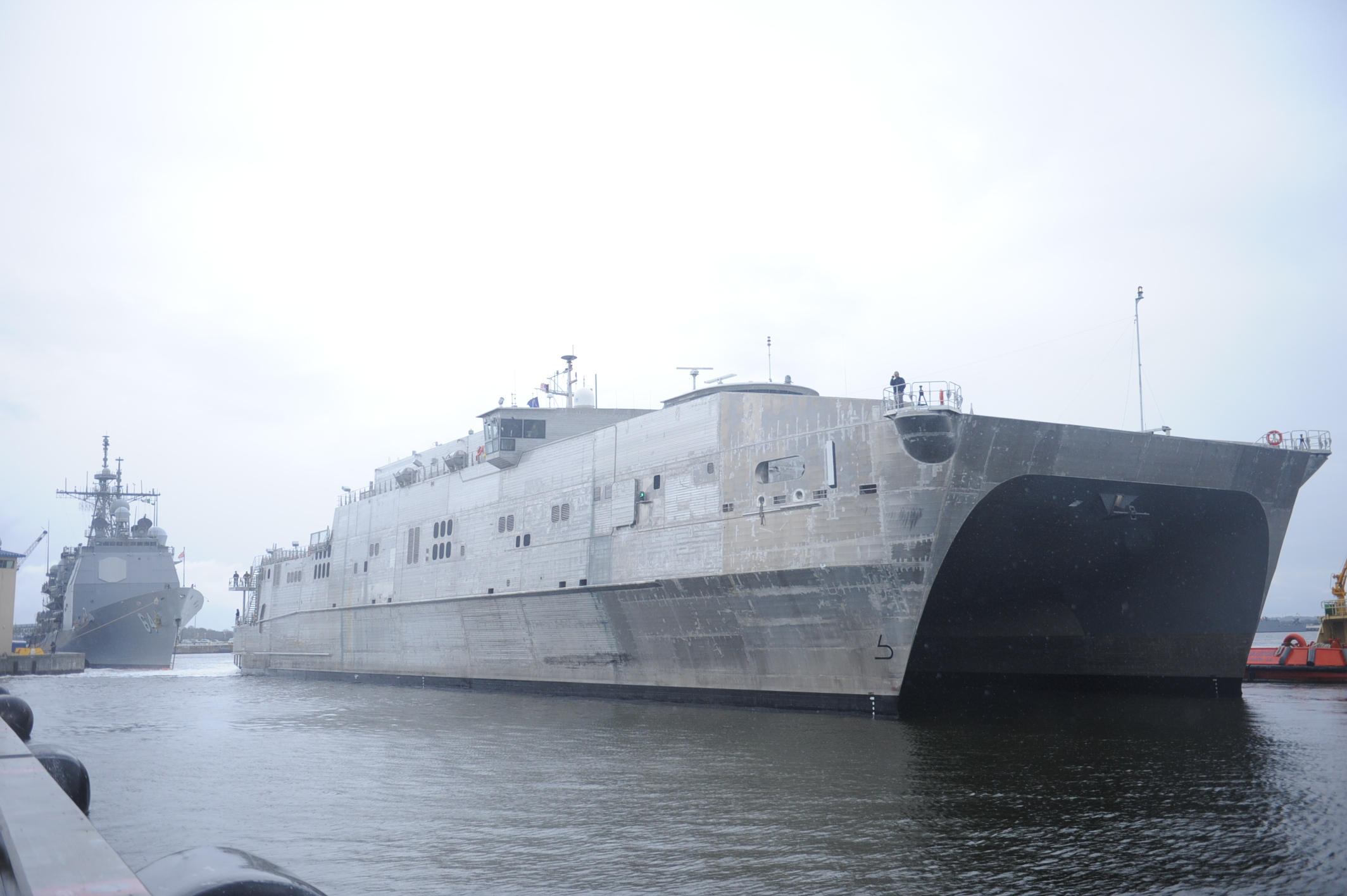 MAYPORT, Fla. (Feb. 14, 2013) The Military Sealift Command joint high-speed vessel USNS Spearhead (JHSV-1) pulls into Naval Station Mayport to be inspected by Rear Adm. Sinclair M. Harris, commander of U.S. 4th Fleet. Spearhead is the first of of nine Navy joint high-speed vessels and is designed for rapid intra-theater transport of troops and military equipment. (U.S. Navy photo by Mass Communication Specialist 3rd Class Damian Berg/Released)